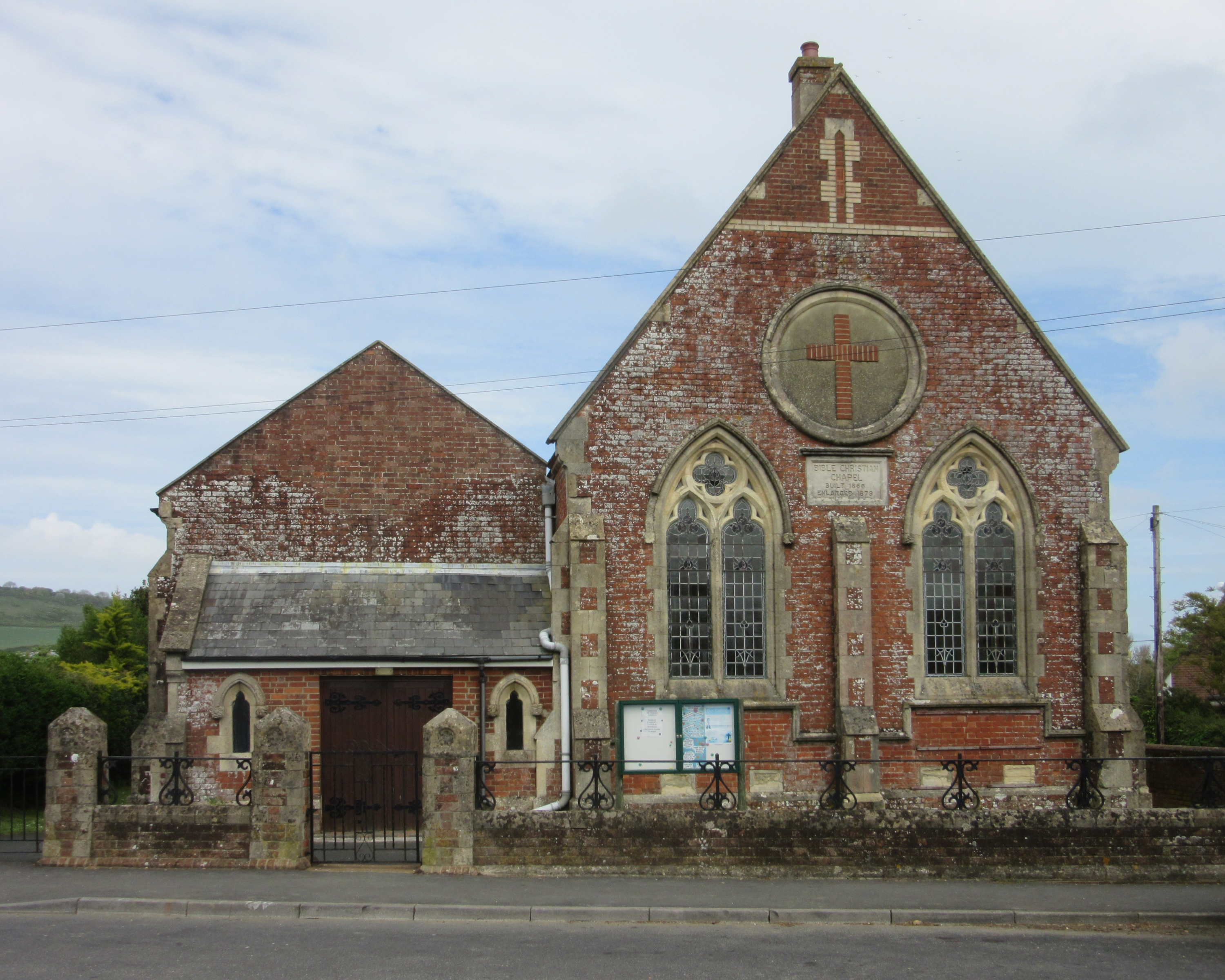 Arreton Methodist Church, Main Road, Arreton, Isle of Wight, England. Built in 1866 and extended in 1879. The church, on the north side of the main road through Arreton village, is still in active use with a Methodist congregation, having originally been built for Bible Christian Methodists.